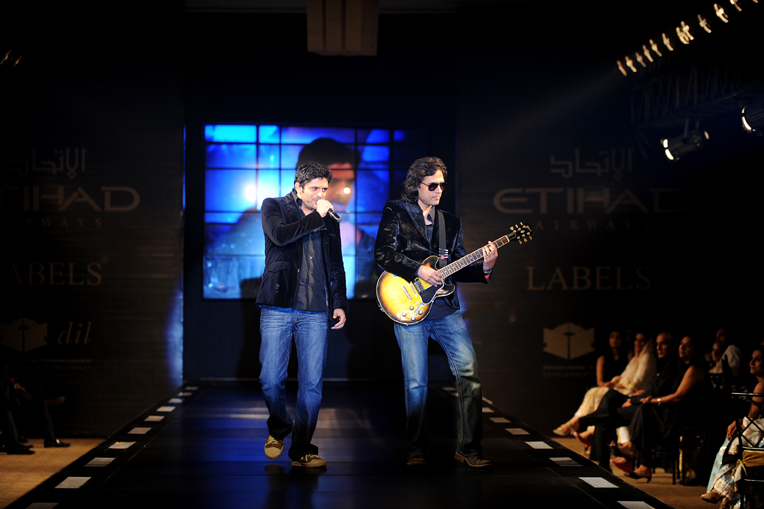 Over the last one year both the lead singers for Strings have worked closely with Etihad in Pakistan for various projects including performance at a fundraiser for Development in Literacy at Eitehad Runway and giving out relief good in flood affecting areas for 2010.